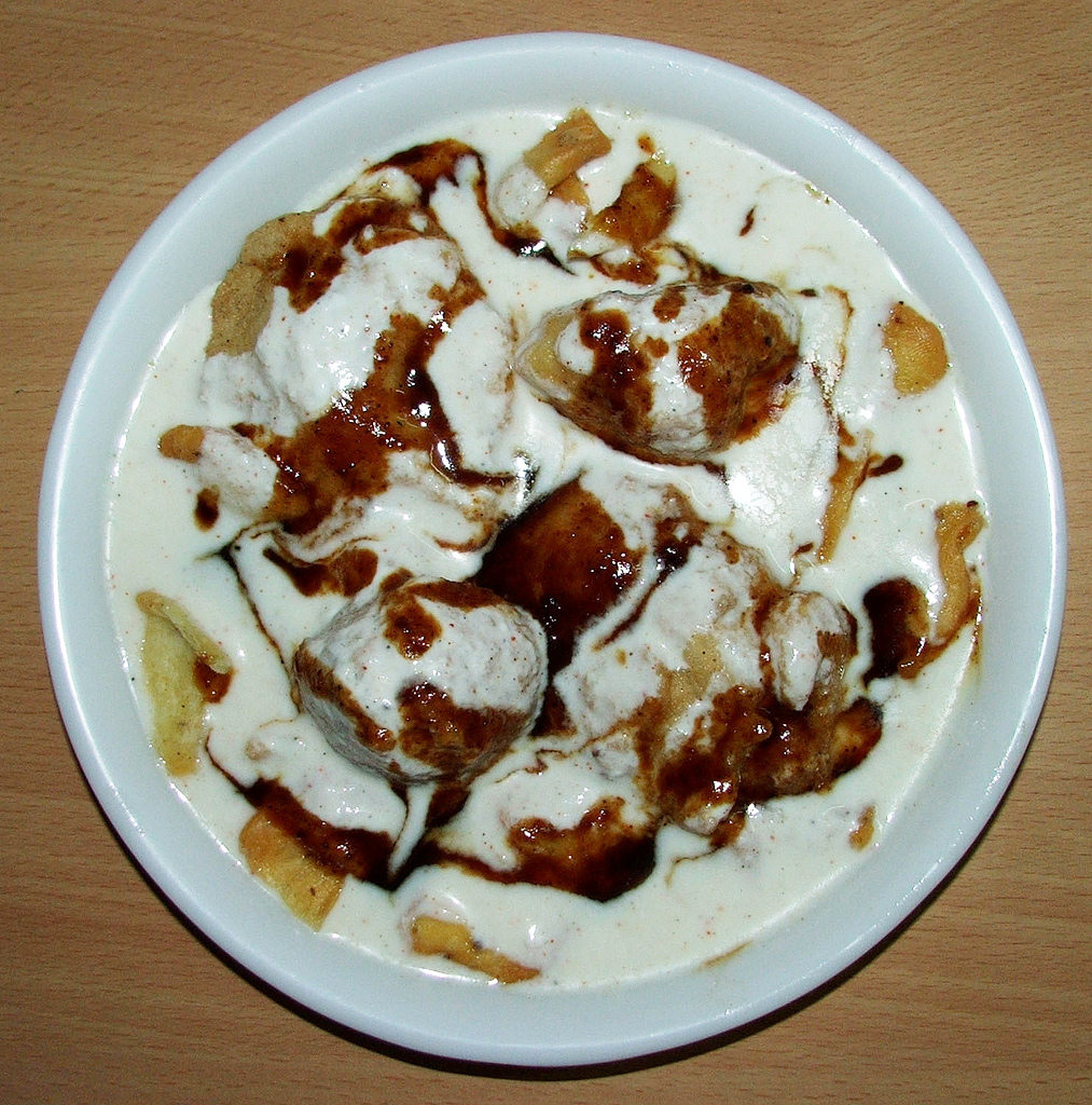 In continuation of Indian Food Series which I have tagged as MIRCHI , would like you to invite to try & taste this wonderful snack of India. This is called Dahi Bhalla Chaat . Prepared by my mother as she always give stress on self cooking .Believe me, this is the favorite stuff of every North Indian ,especially girls and ladies.But the bad part if is my mother cannot eat more of such stuff because of her asthma disease. Dahi Bhalla Chaat recipe Ingredients 1 c urad dal ( White Lentils ) 1 kg yoghurt or curd 2 tsp roasted cumin powder 1 tsp red chili powder 1 tsp kala namak ?Black Rock salt (salt to taste) 1 inch ginger fine choped Edible oil for frying 3 tbsp chopped coriander leaves 15-20 raisins 1 green chillli, deseeded & slivered mint chutney tamarind chutney Method Wash and soak the dal in cold water overnight. Next day, strain and grind to a smooth paste. Whisk into the batter 1/2 tsp salt, 1/2 tsp red chilli powder and raisins. Heat oil in a wok. Drop tablespoons of batter in it and fry until light golden. Remove, drain on absorbent paper. Put the bhallas in hot water. Leave for 2 minutes. Drain, squeezing out the water between the palm of your hands. Whisk the yoghurt well with kala namak and salt to taste. To serve, place the bhallas on a plate and cover with yoghurt. Drizzle mint chutney and tamarind chutney. Sprinkle red chilli powder, cumin powder. Garnish with coriander leaves, ginger and green chili. N ' JOY Regards Nitin Badhwar